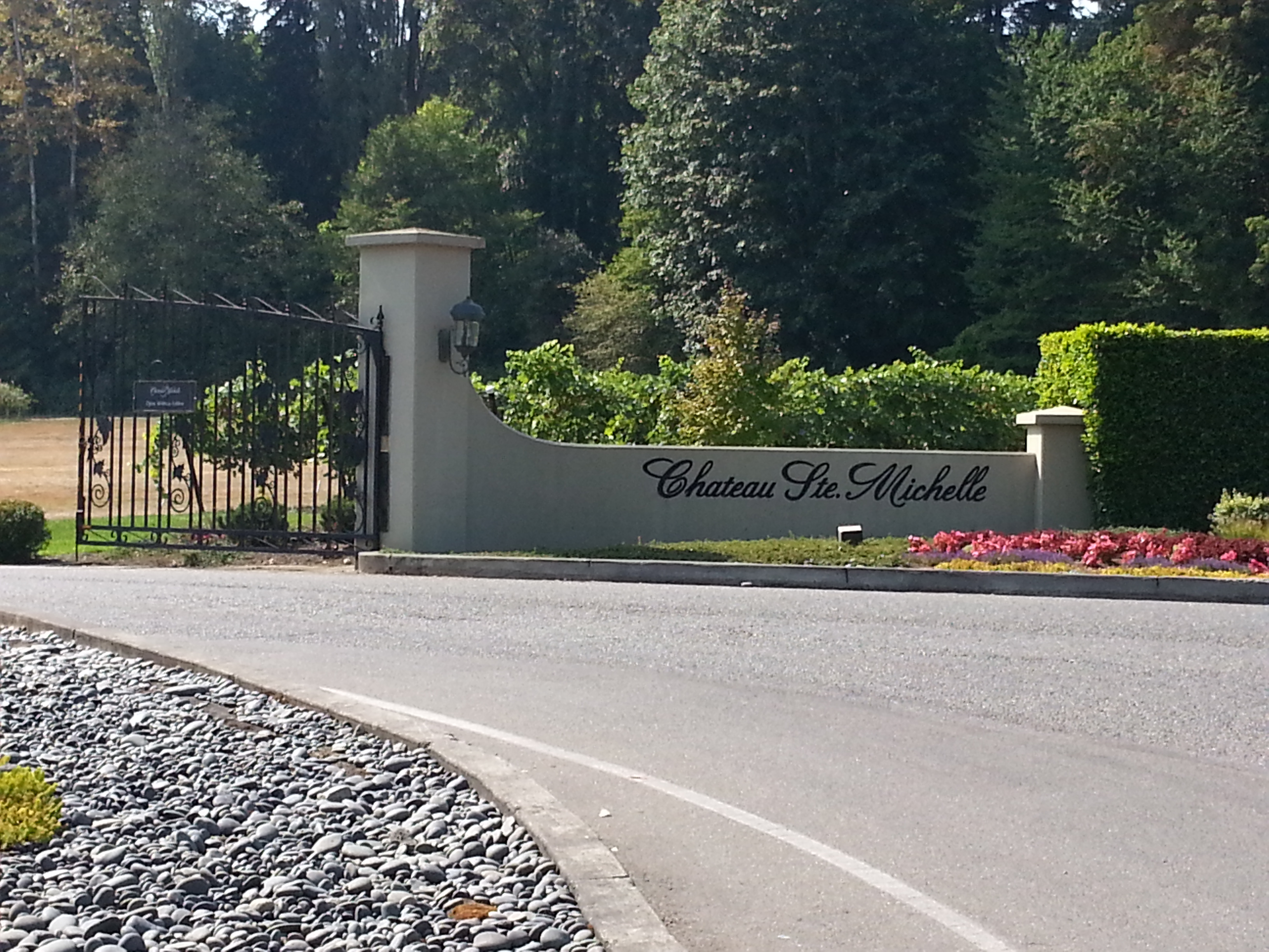 Chateau Ste. Michelle, the former Hollywood Farm; listed as the latter on the National Register of Historic Places